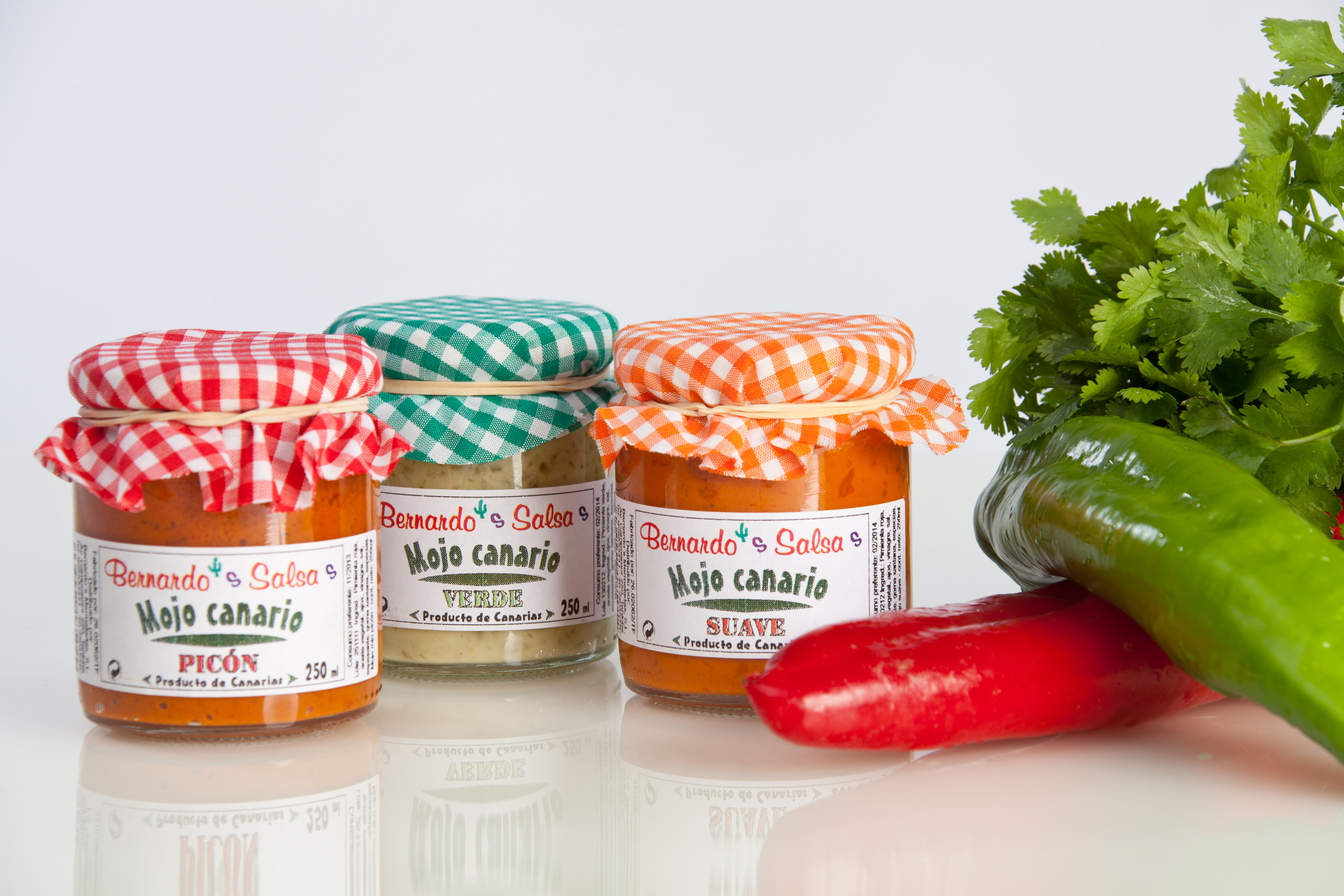 A typically sauce from the Canary Islands.